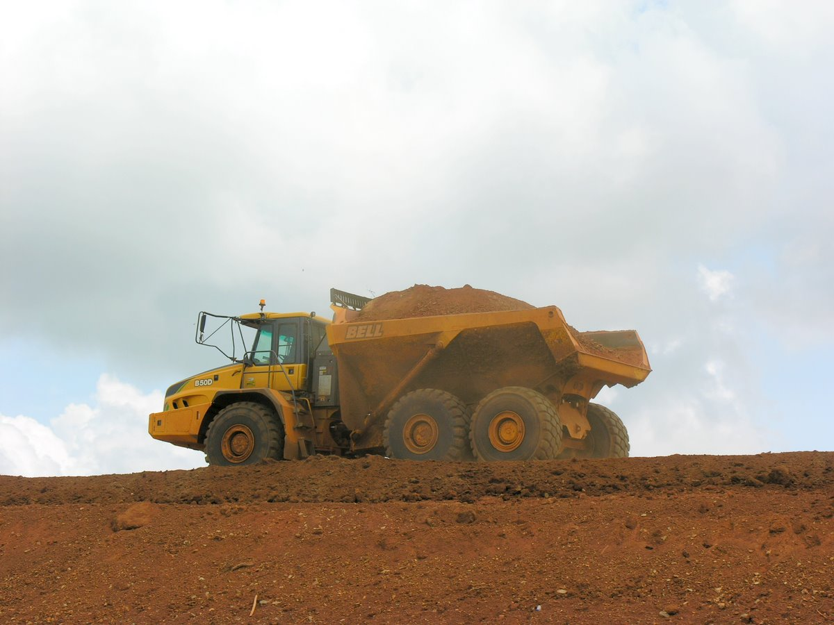 Buzwagi Goldmine, Kahama, Tanzania